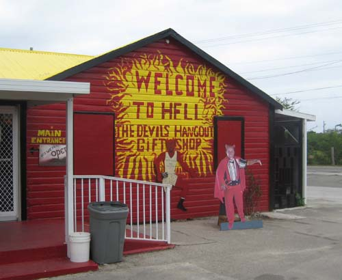 This is the gift shop that is in Hell, Grand Cayman.